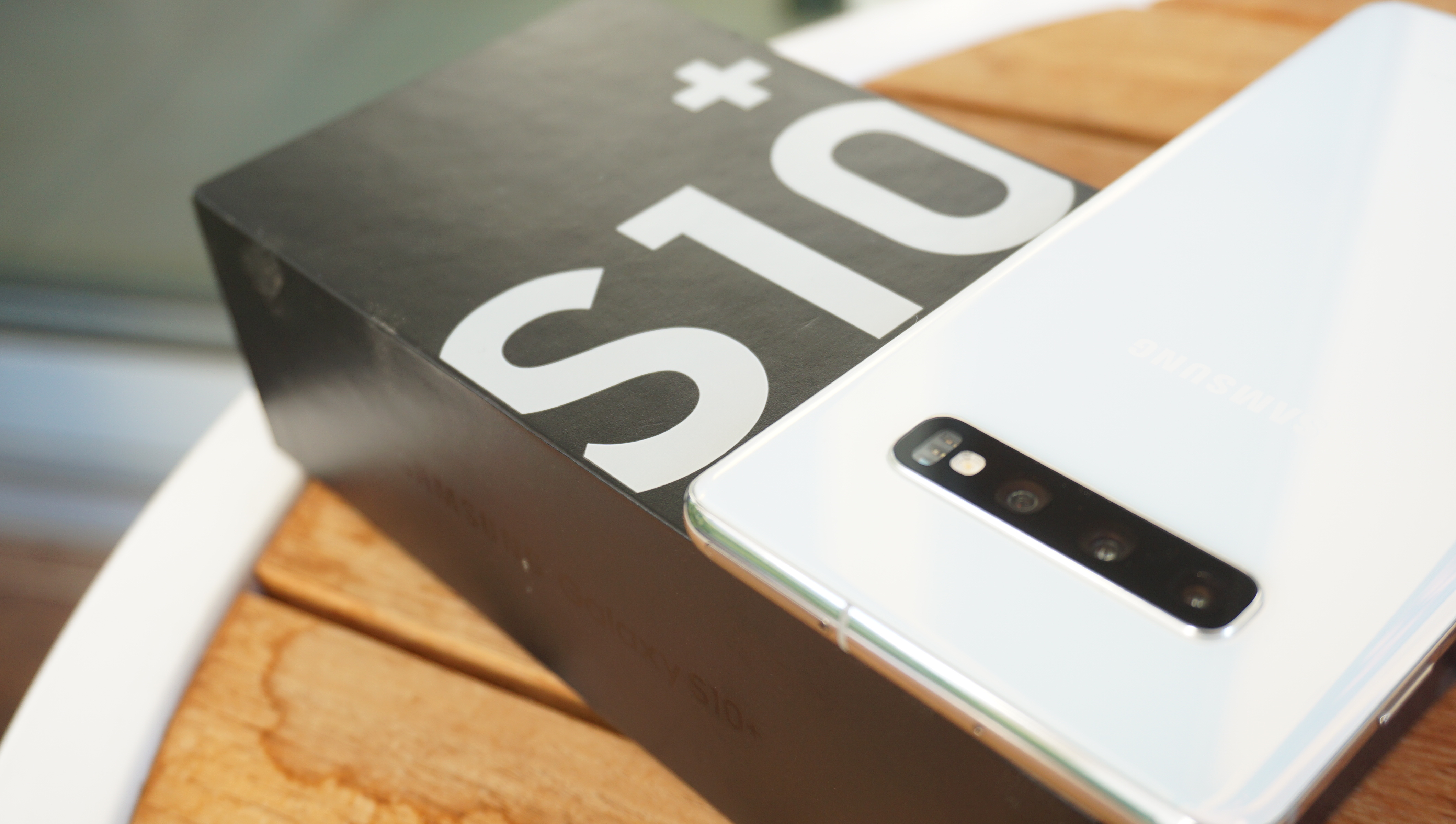 Back view of Samsung Galaxy S10+